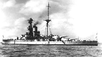 HMS Resolution.